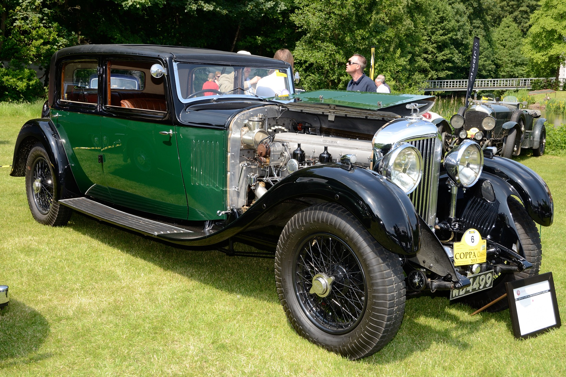 2013 Coppa Classic Bentley 8-litre saloon by H J Mulliner 1932 Chassis YM5039 13' (156") wheelbase Engine YM5039 Reg WD 4499 delivered September 1932 to Bernard Hopps of Rugby Source of data—Vintage Bentleys